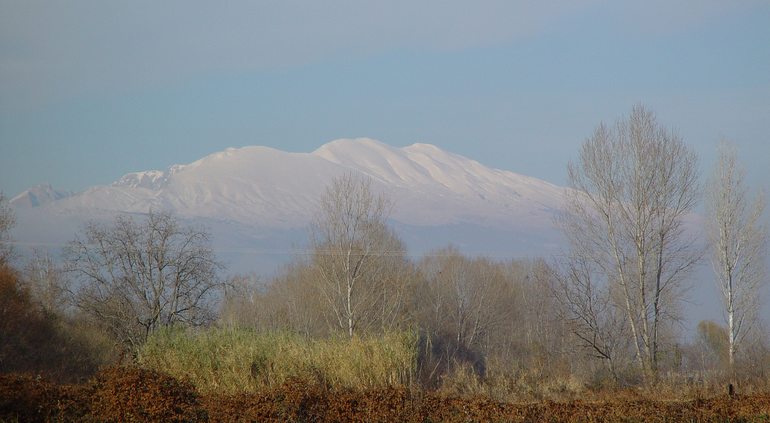 Pangaion Mt as seen from Philippi : North side. Photography taken on 12/10/01 by Marsyas.